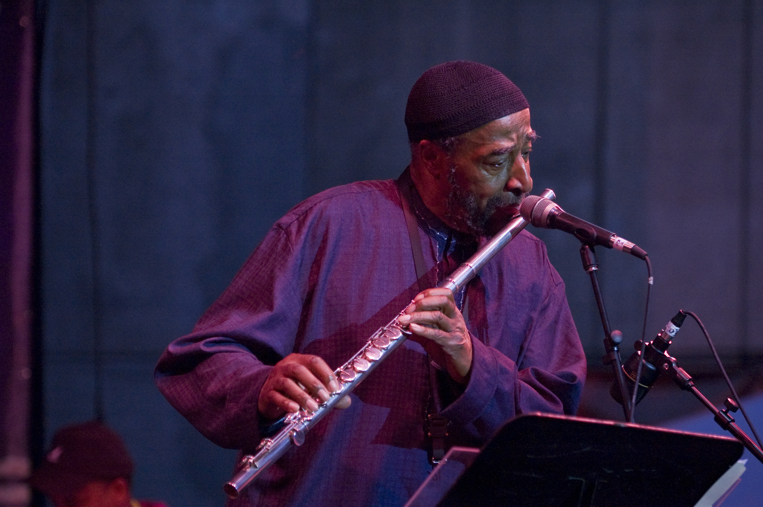 Yusef Lateef at the Detroit Jazz Fest 2007